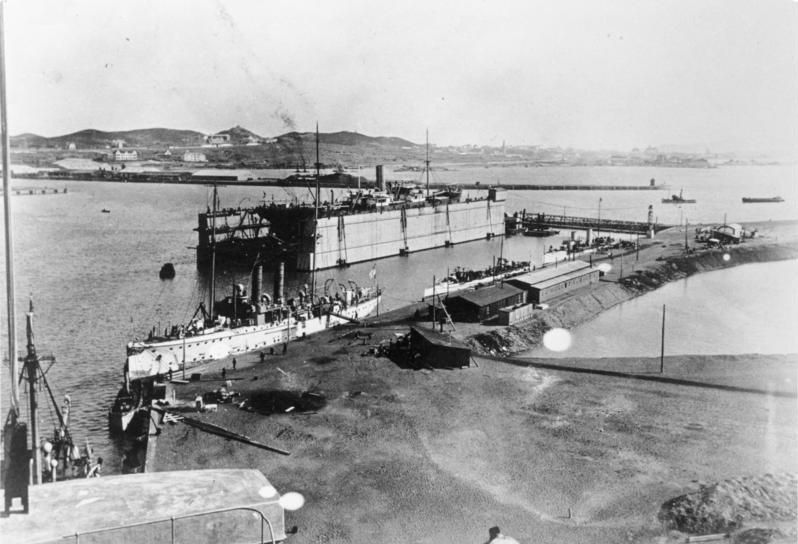 Floating drydock and Iltis class gunboat